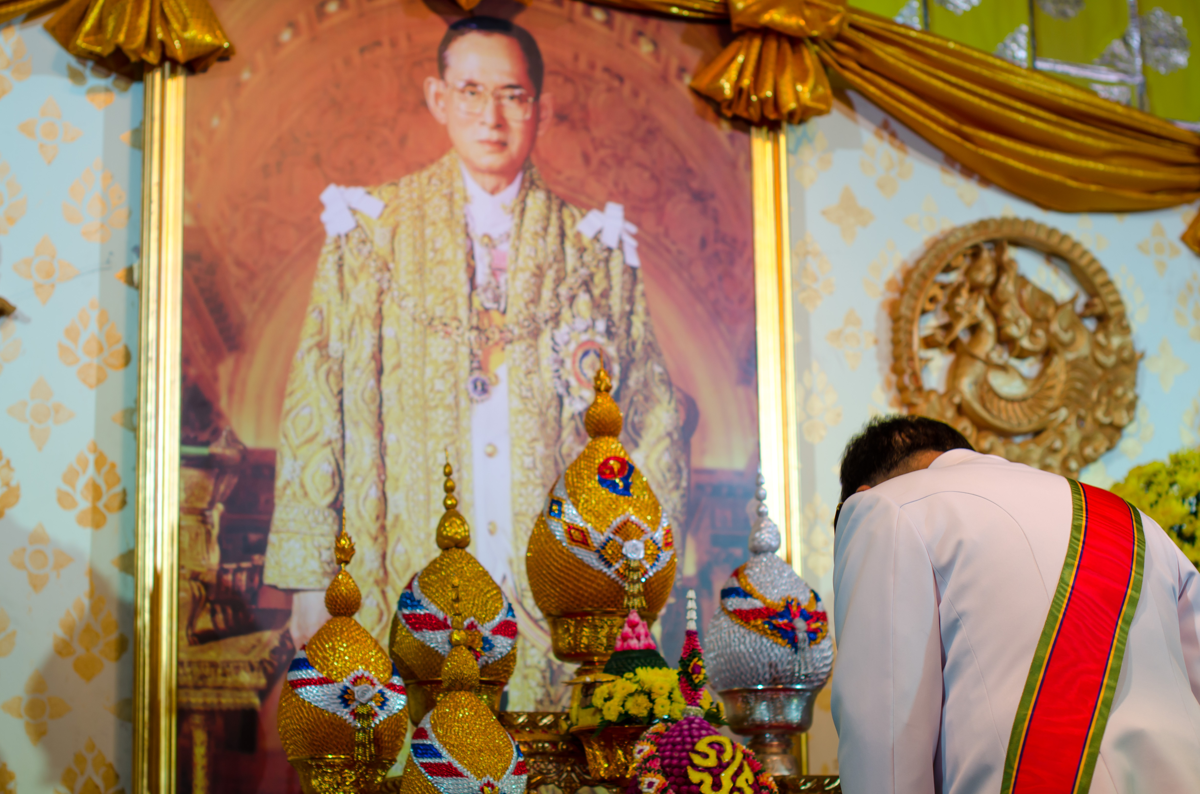 Governor Tanin Subhasaen, of Chiang Mai province, bows to a portrait of His Royal Highness at the reception held in honour of HM the King on December 6, 2012.